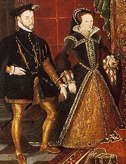 Portrait of king Felipe II. of Spain and his second spouse Queen Maria I. of England